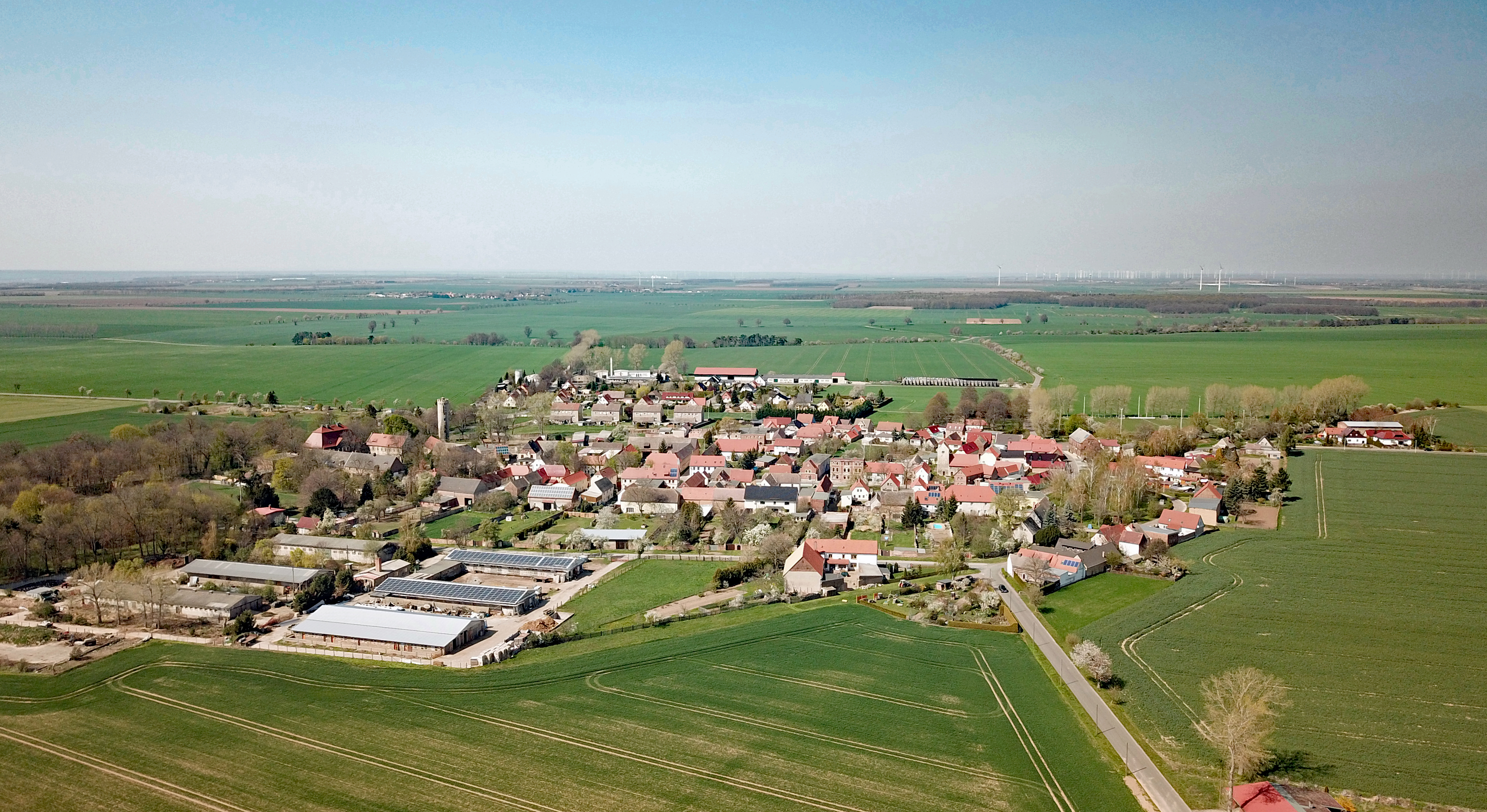 Baumersroda, Gleina, Burgenlandkreis, Saxony-Anhalt, Germany